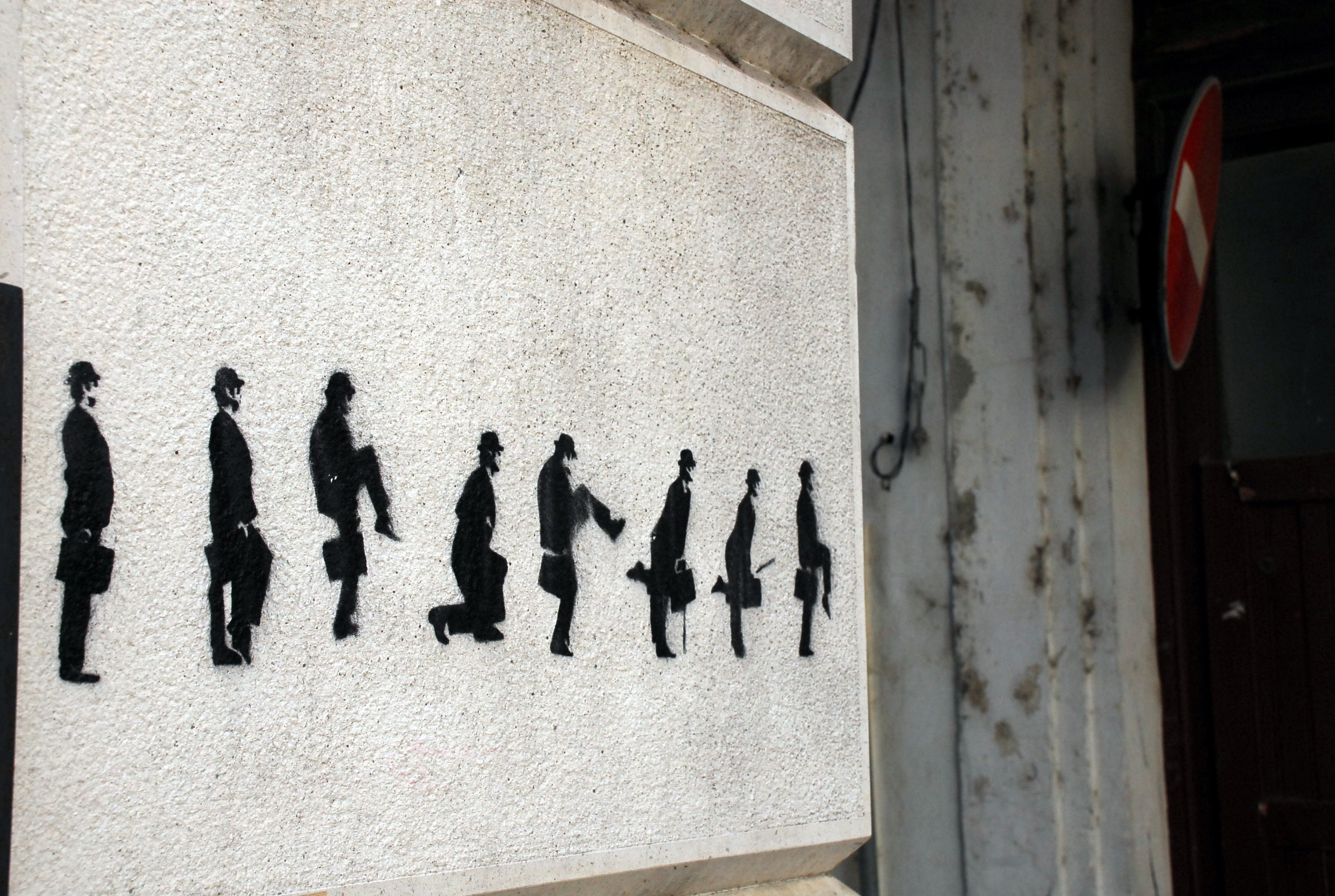 Street art in Porto, Portugal